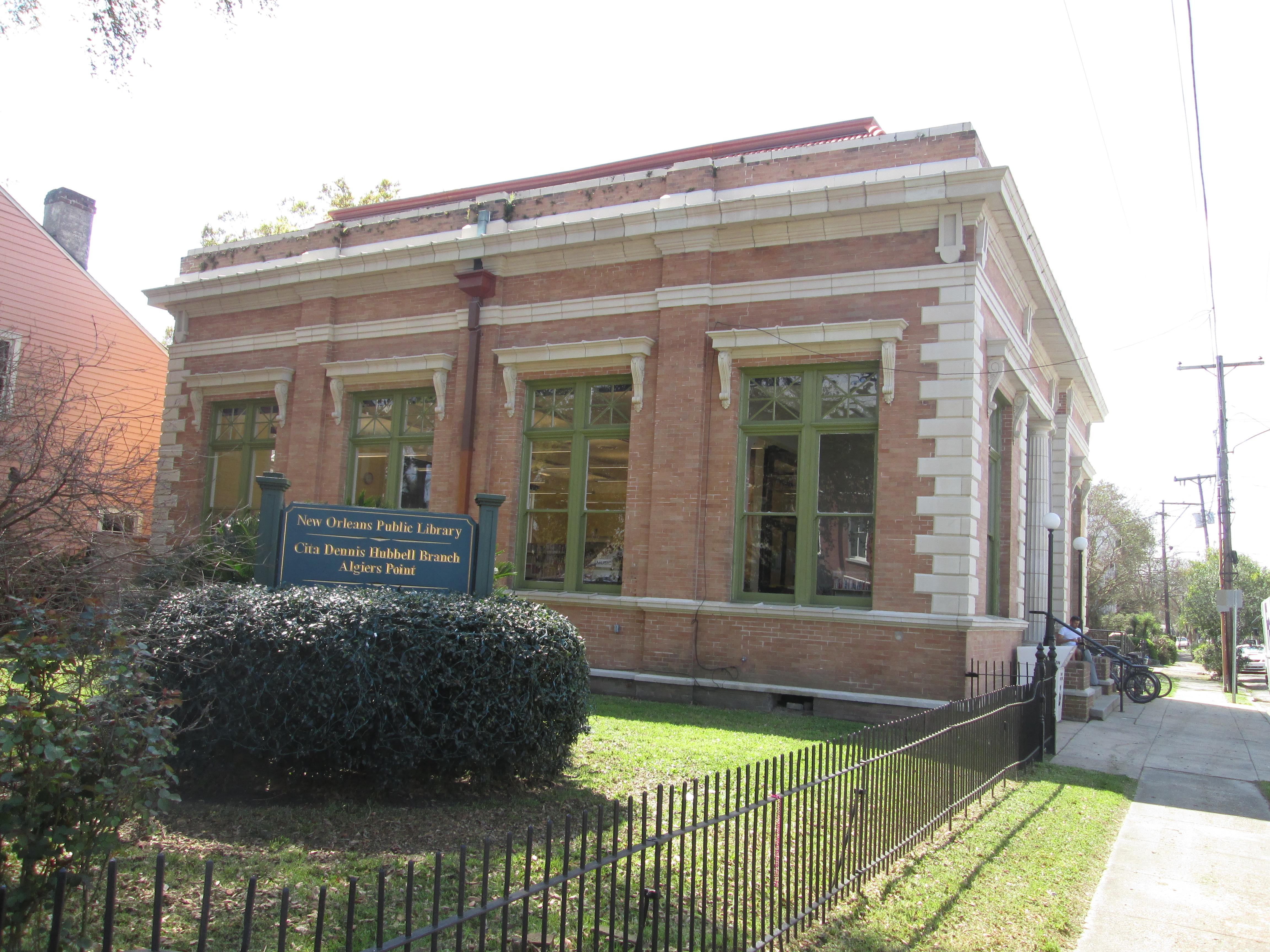 New Orleans. Algiers Point branch of Public Library, reopened after extensive renovations.